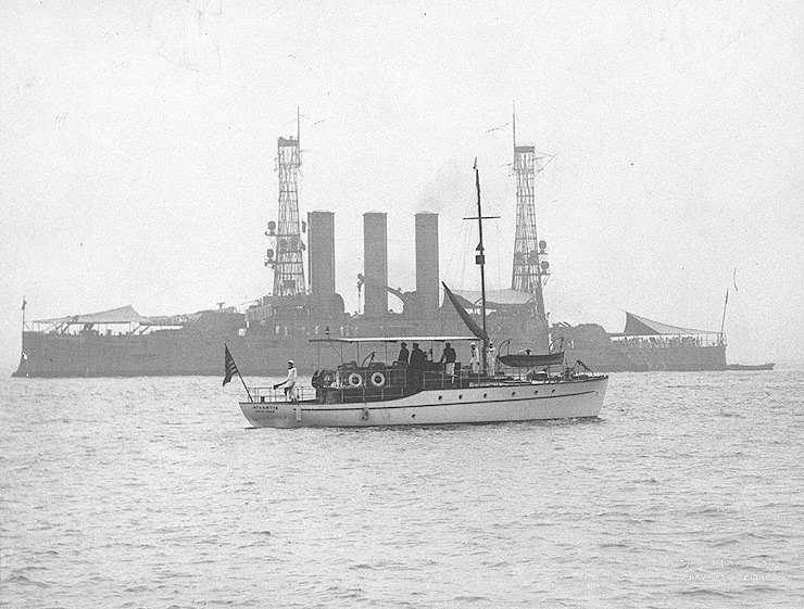 Removed caption read: Photo # NH 95862 Motor boat Atlantis passing USS Maine, prior to World War I The USS Atlantis (SP-40), passing USS Maine (BB-10), prior to World War I. Photographed by Paul Thompson, New York. USN Photo NH 95862